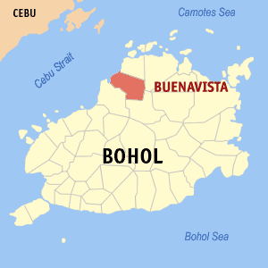 Map of Bohol showing the location of Buenavista